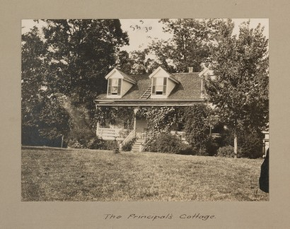 The principal's house at Calhoun Colored School